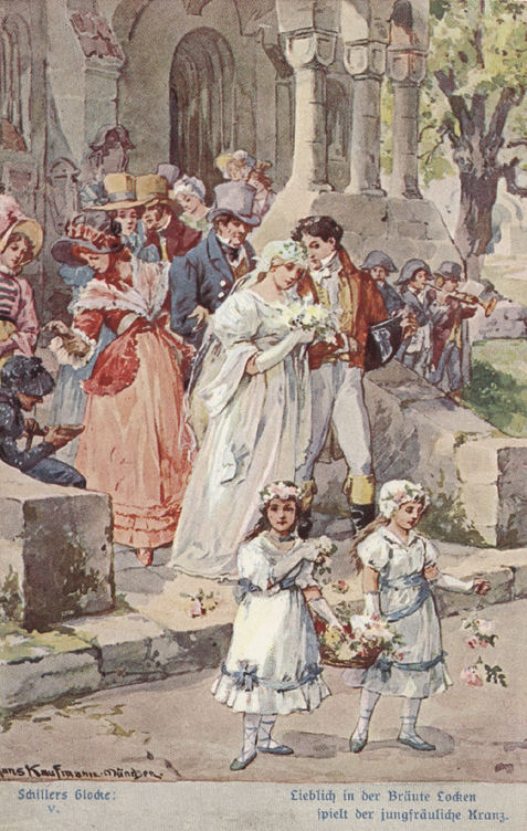 illustration of Friedrich Schiller's "Song of the Bell" (German: "Das Lied von der Glocke")